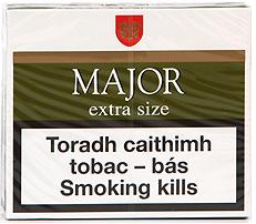 20 Major